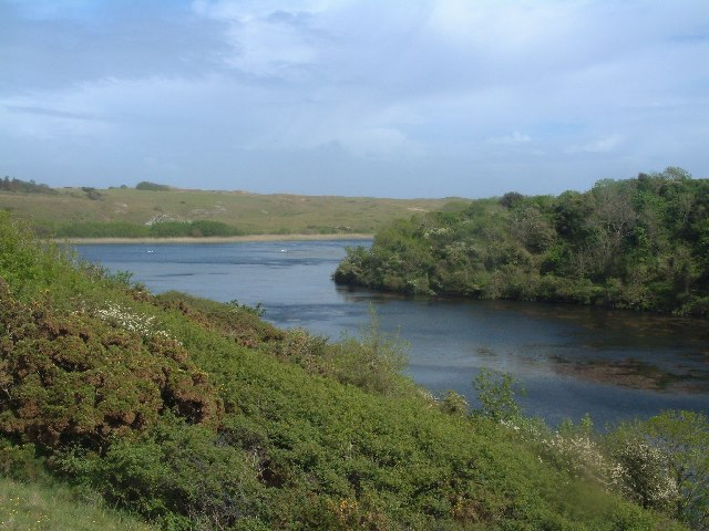 Bosherston Lakes. The lakes, or lily ponds, are part of the National Trust's Stackpole Estate.